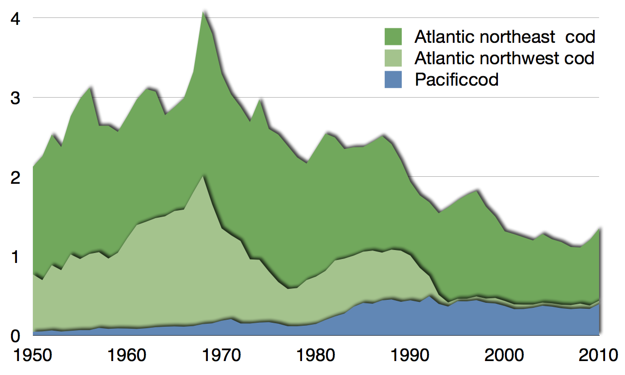 Global capture of Atlantic and Pacific cod in tonnes, showing collapse of the northwest Atlantic cod fishery, 1950–2010, as reported by the FAO. Based on data sourced from the FishStat database, FAO.